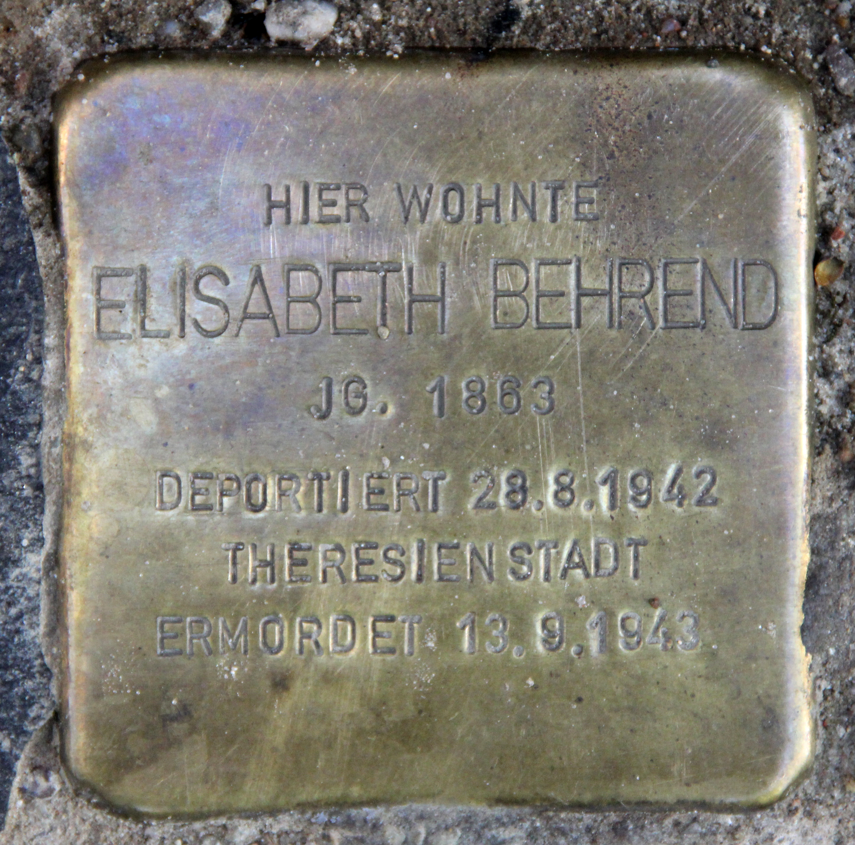 "Stolperstein" (stumbling block), Elisabeth Behrend, Eislebener Straße 4, Berlin-Charlottenburg, Germany